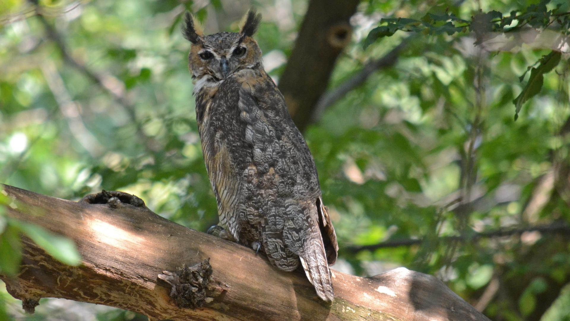 Tower Grove Park 8/24/12